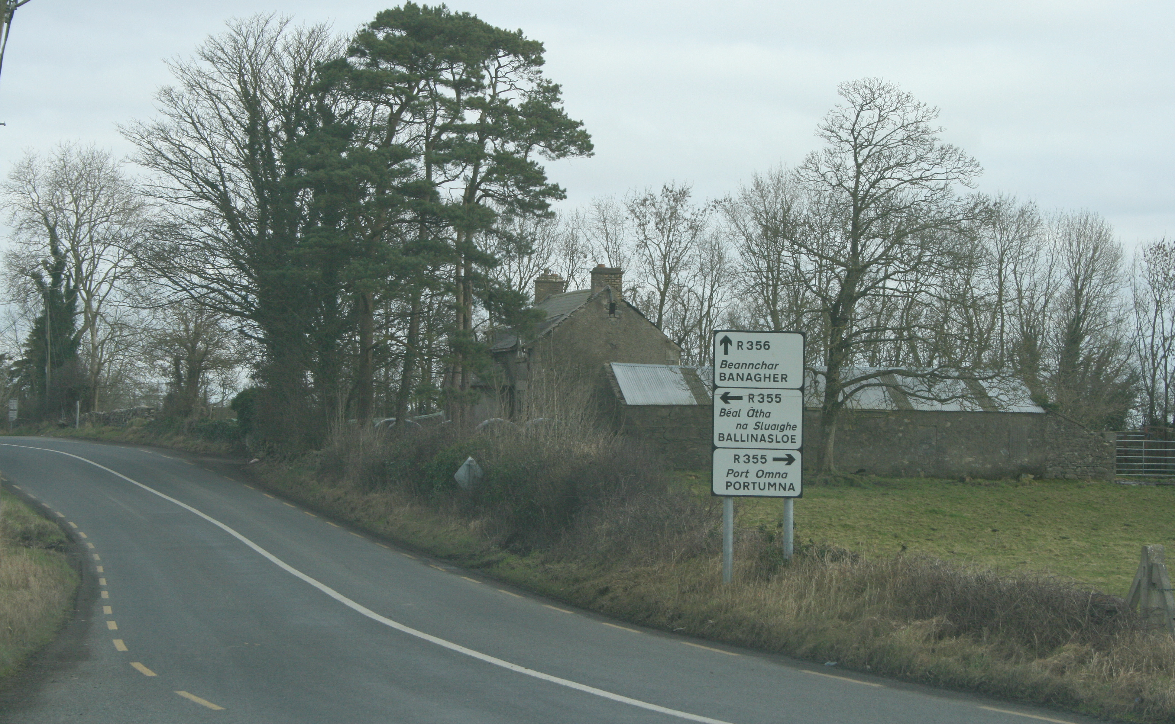 R355 through staggered junction with the R356 in East Galway